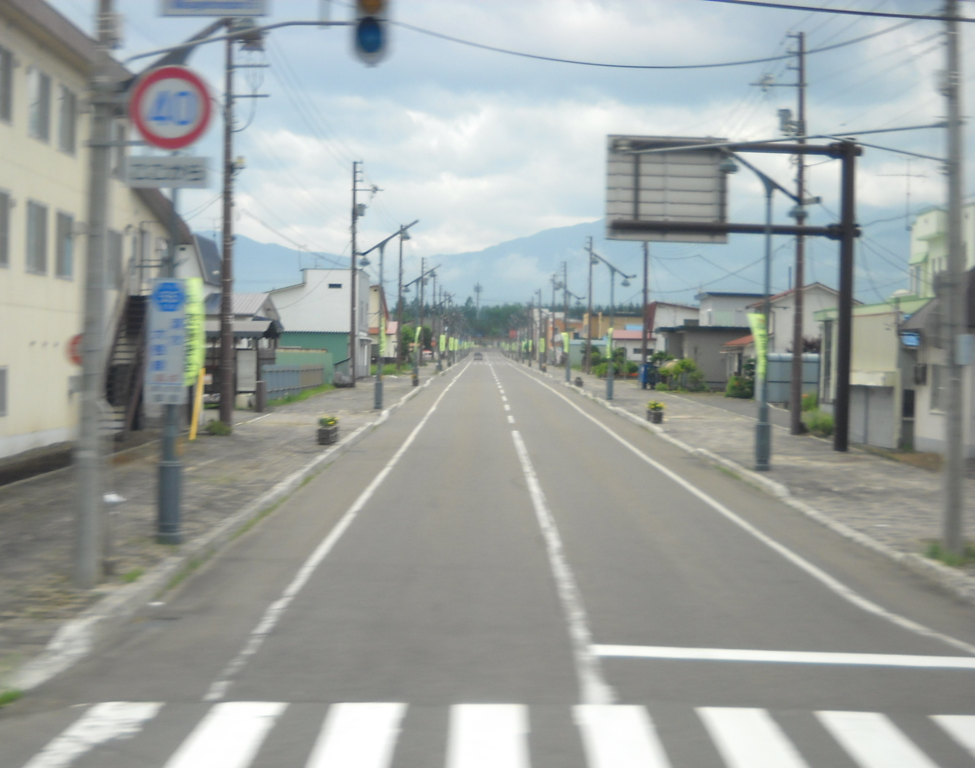 Starting point of the Hokkaido Prefectural Road Route 55 in Mikagehondori 5-chome, Shimizu Town